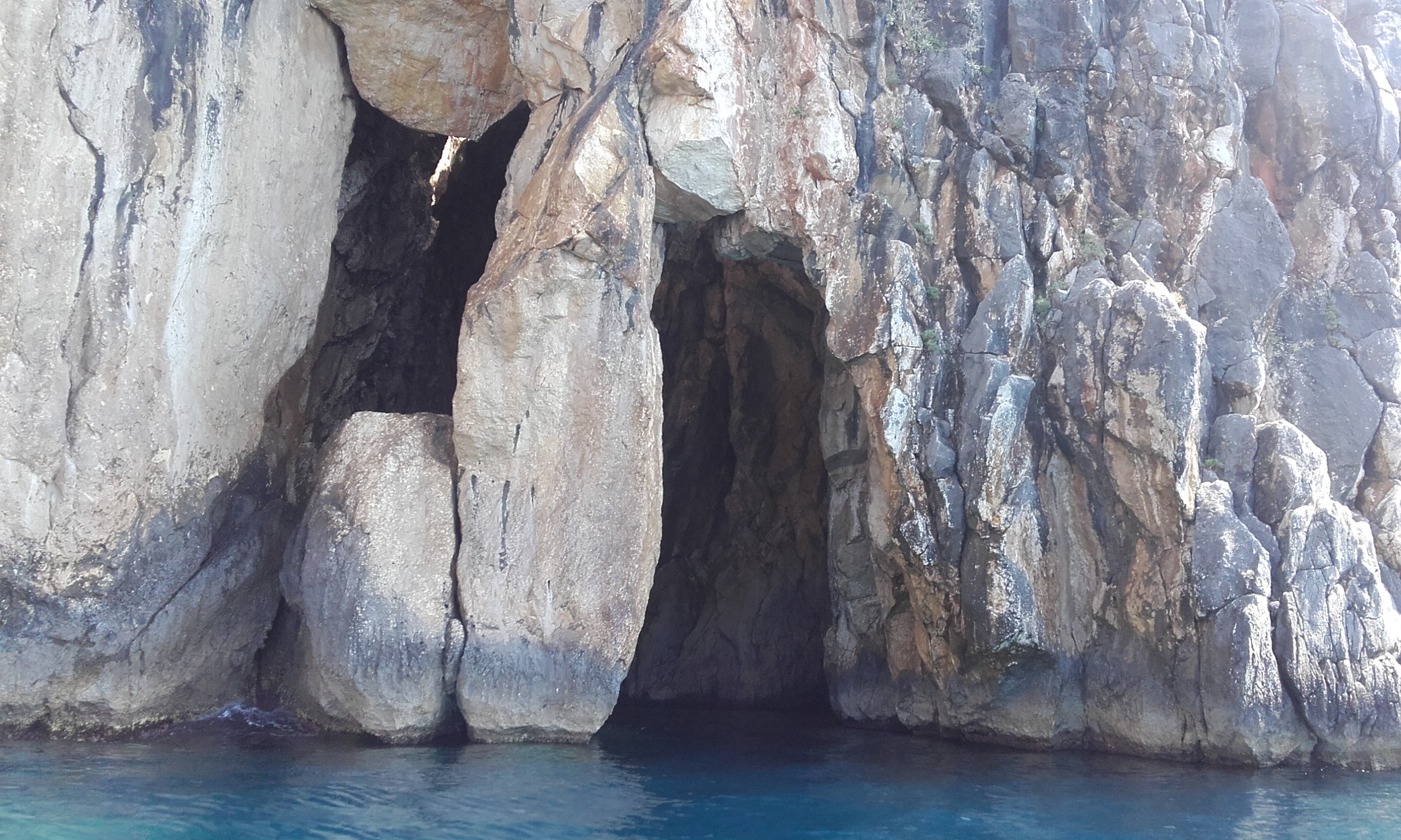 A cave with an open spot on top of it located near Dhermi, Albania.